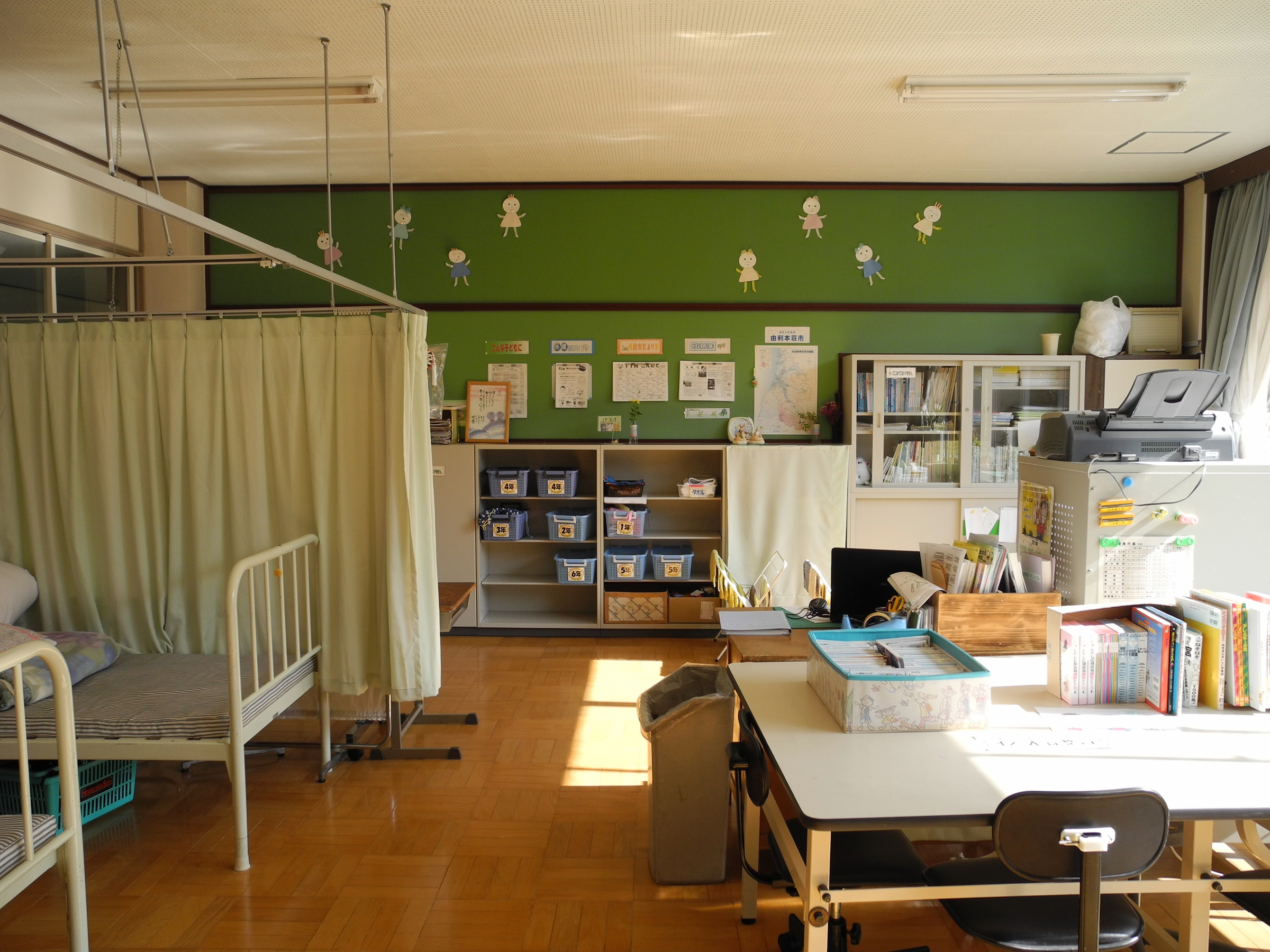 Back of nurse's office. Jinego Elementary School. Kami-Jinego, Chokai, Yurihonjo, Akita, Japan.